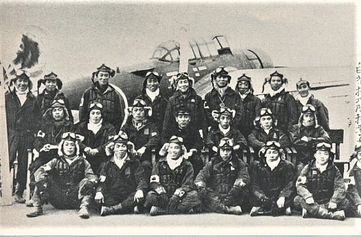 Commemorative photo of a kamikaze attack member in front of siragiku